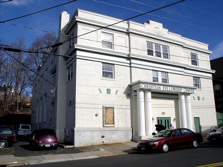 The former Carberry Theater building in Bristol, Connecticut; part of the Main Street Historic District.